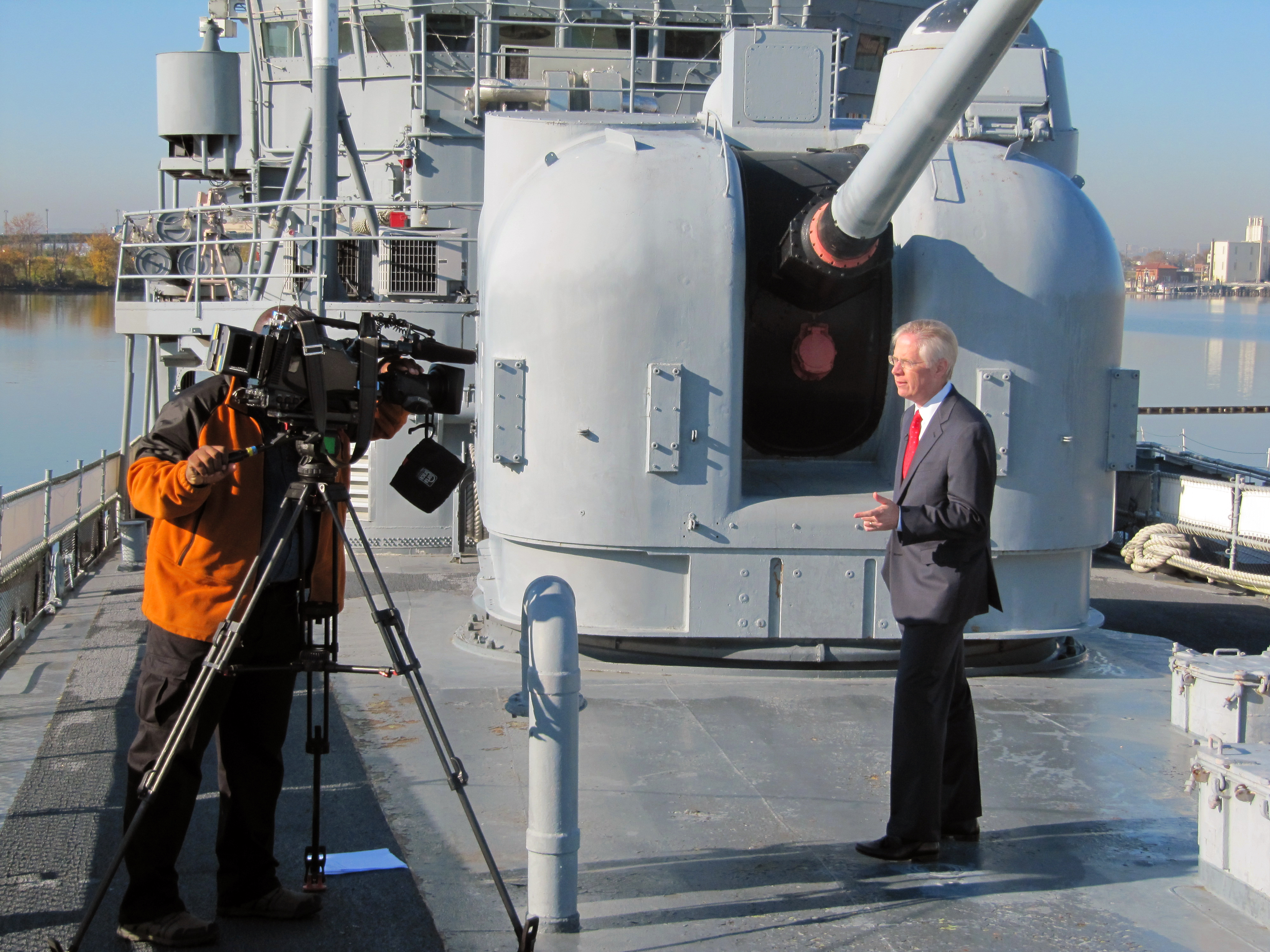 WASHINGTON (Nov. 7, 2011) Tom Foreman reports from the Washington Navy Yard display ship Barry. Barry was recently chosen by CNN as the site of the network's Veteran's Day special, which will air on Veteran's Day. (U.S. Navy photo by Chatney Auger/Released)